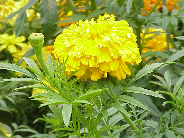 Species: Tagetes x erecta Family: Compositae Image No. 1